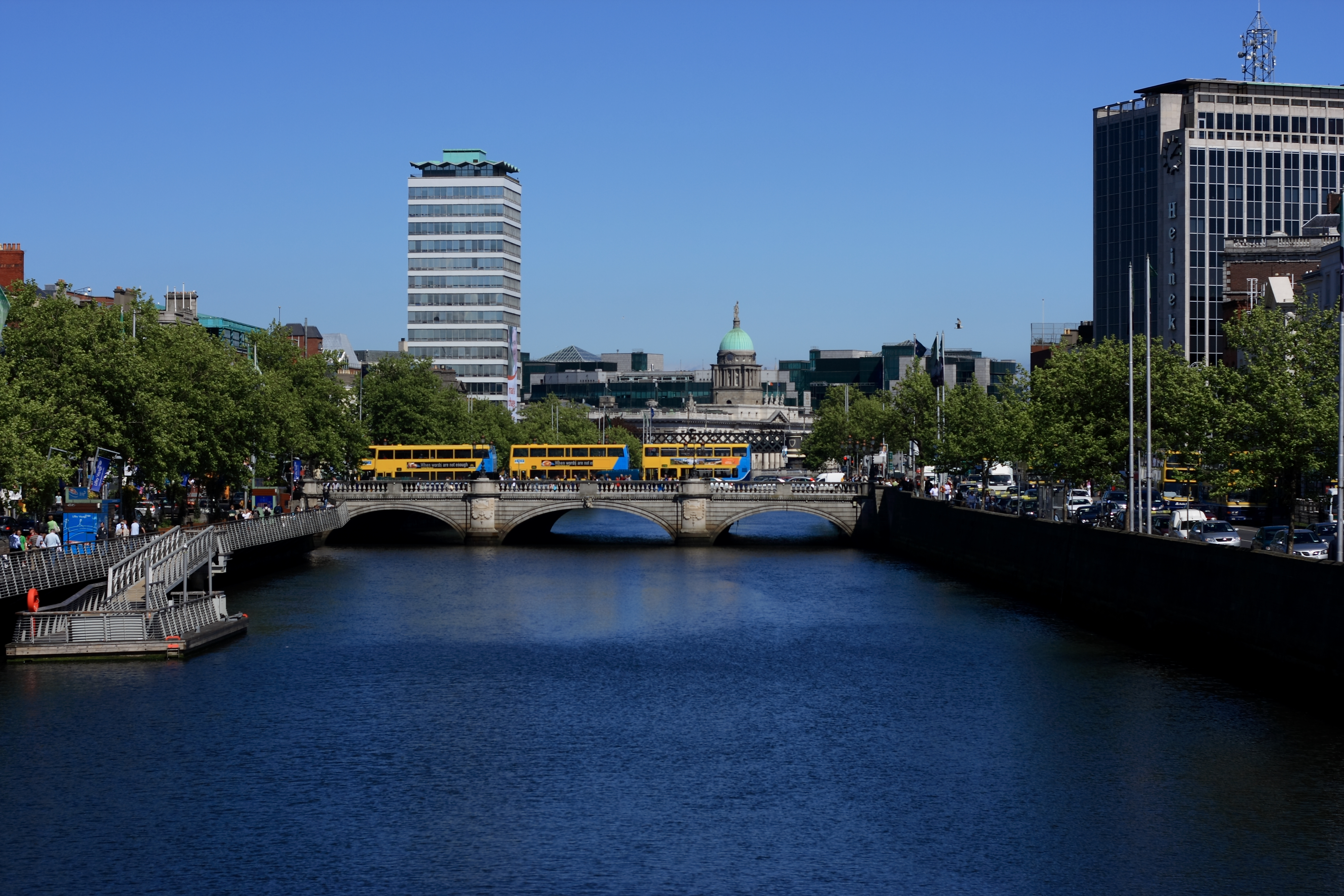 Dublin and Liffey by day.